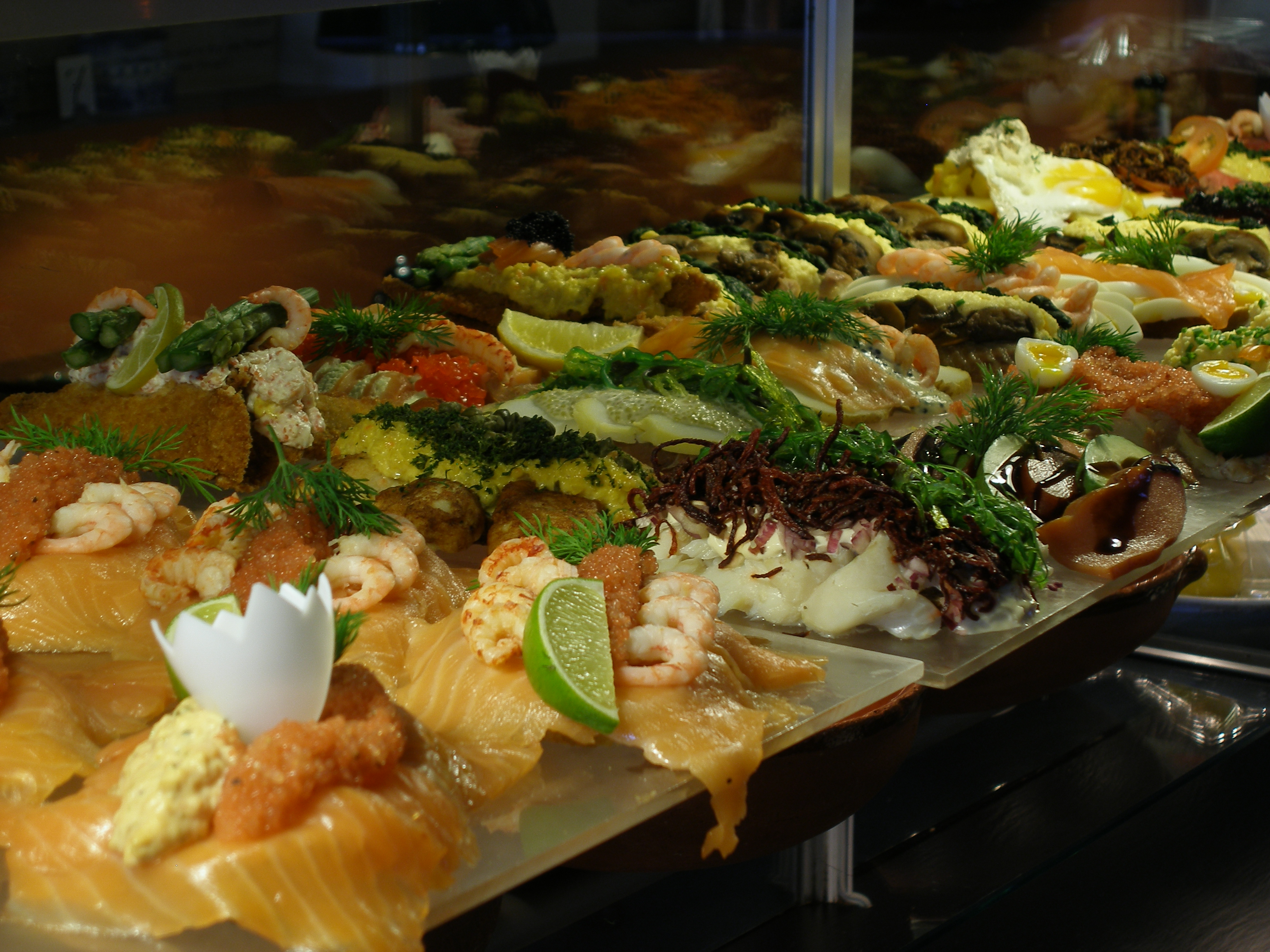 Decorated open-faced sandwiches (pyntet smørrebrød) in showcase of Restaurant Ida Davidsen, St. Kongensgade 70, Copenhagen, Denmark